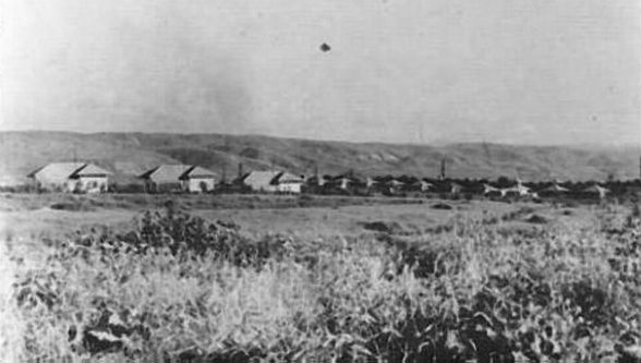 view of Tel Or